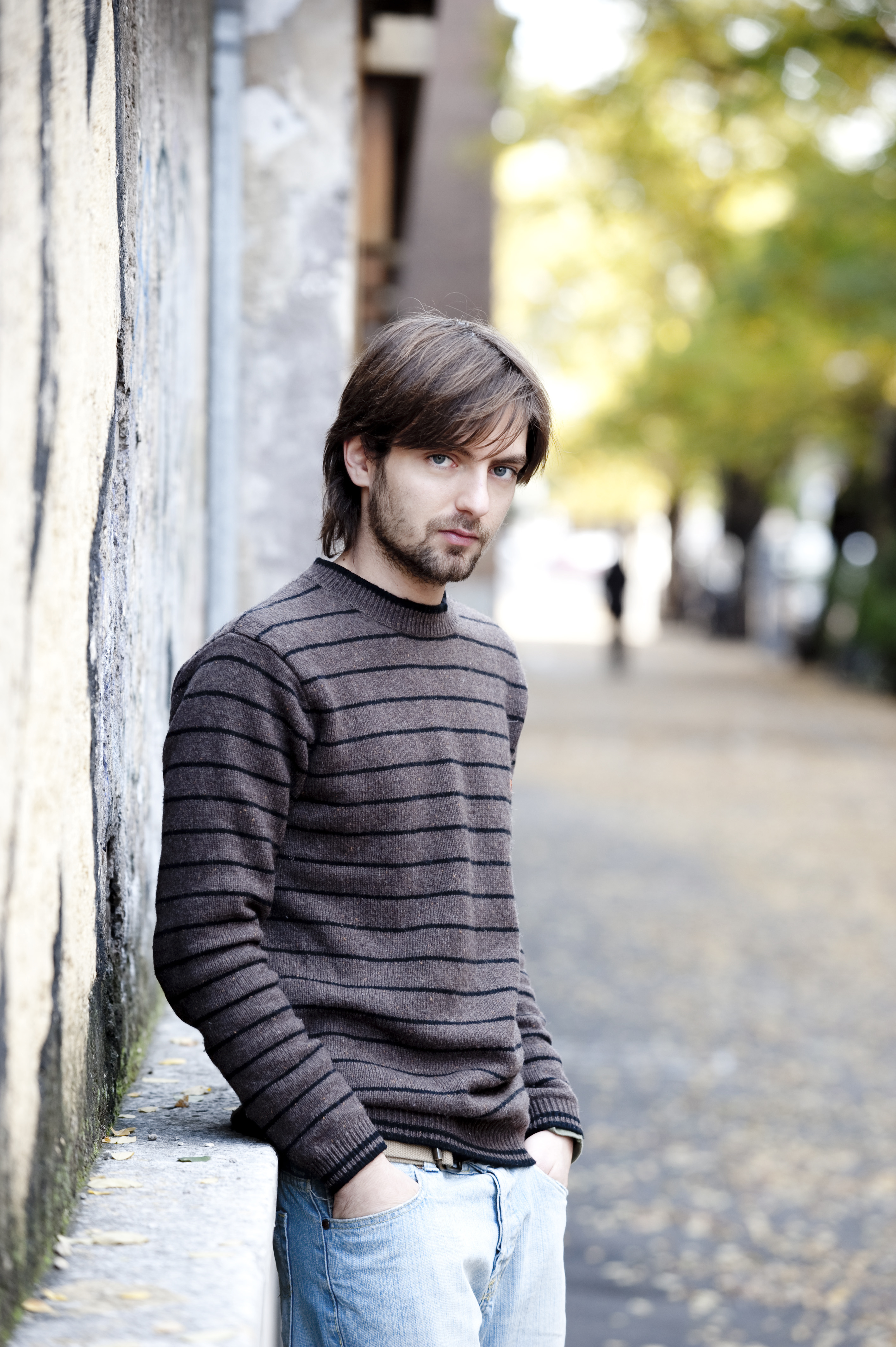 The Italian actor Damiano Russo photographed by Michela Marcato